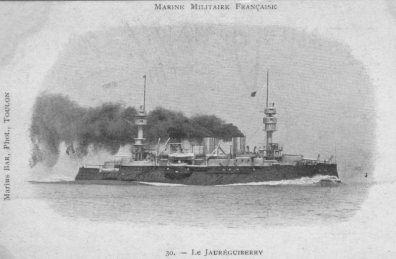 French battleship Jauréguiberry (1890-1934)